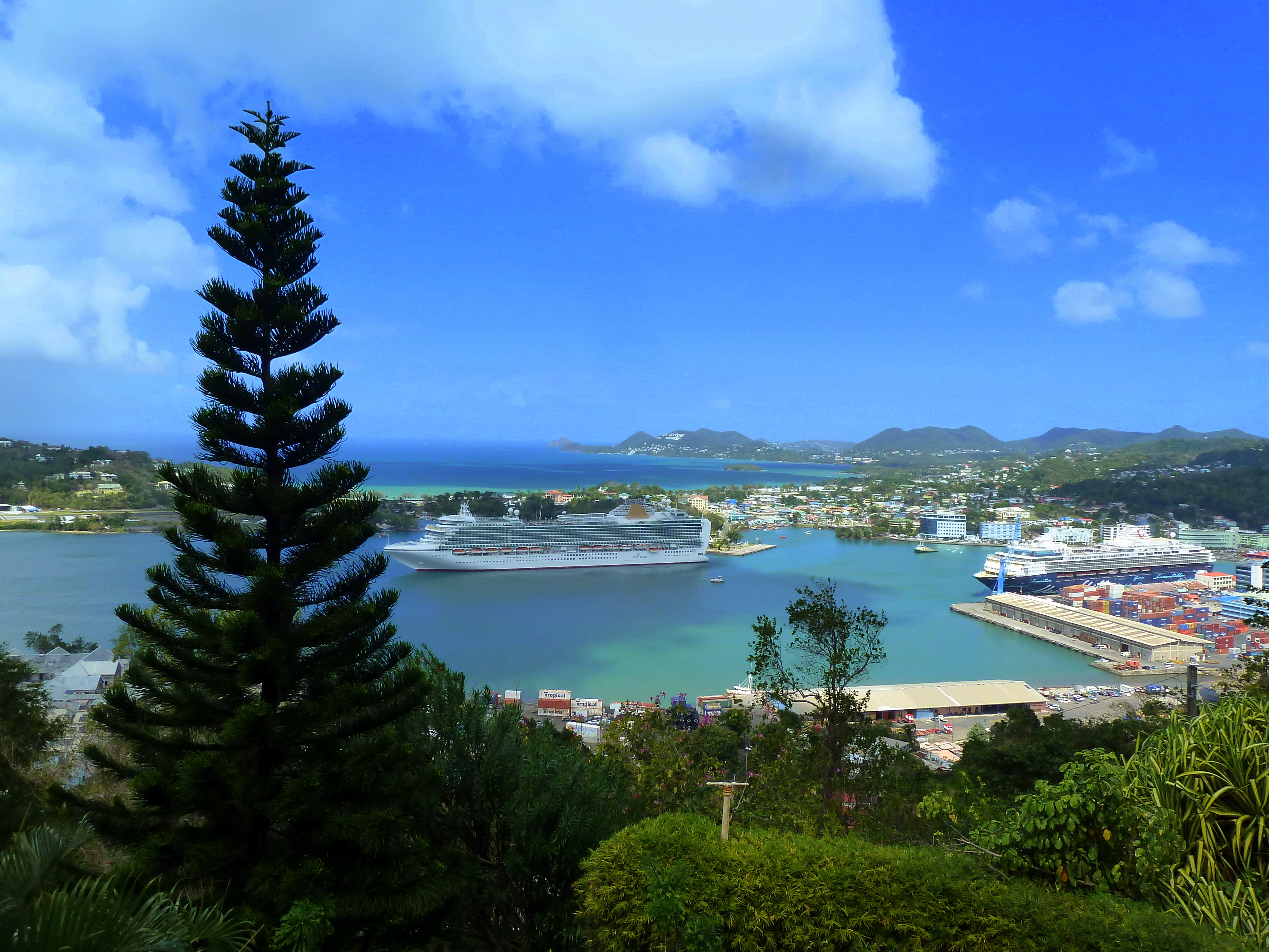 St. Lucia, Karibik - The Port of Castries